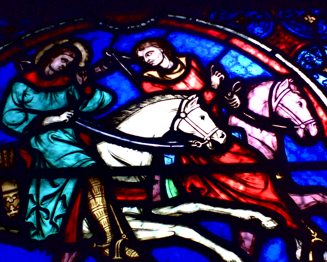 A stained glass window in Paris Cathedral.